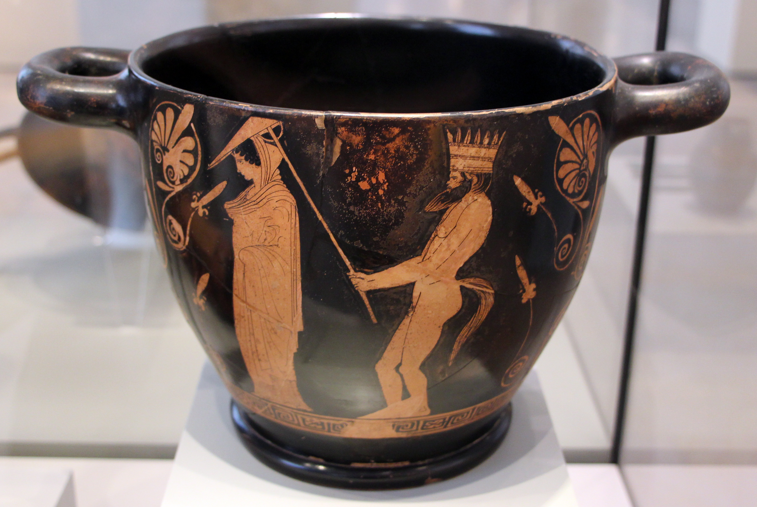 Ancient Greek pottery in the Antikensammlung Berlin